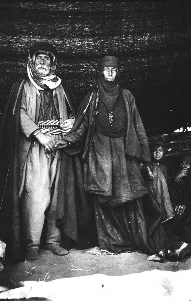 Saudi Man and Wife, 1914